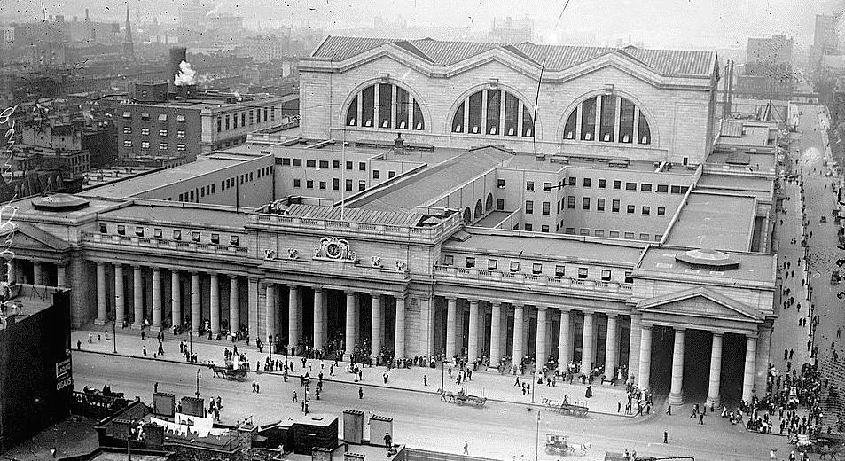 Penn. RR Station from Gimbel's N.Y. (LOC) Bain News Service,, publisher. Pennsylvania Station from Gimbel's in 1911 [between ca. 1910 and ca. 1915] 1 negative : glass ; 5 x 7 in. or smaller. Notes: Title from unverified data provided by the Bain News Service on the negatives or caption cards. Forms part of: George Grantham Bain Collection (Library of Congress). Subjects:N.Y. Format: Glass negatives. Repository: Library of Congress, Prints and Photographs Division, Washington, D.C. 20540 USA, General information about the Bain Collection is available at Persistent URL: Call Number: LC-B2- 2286-15